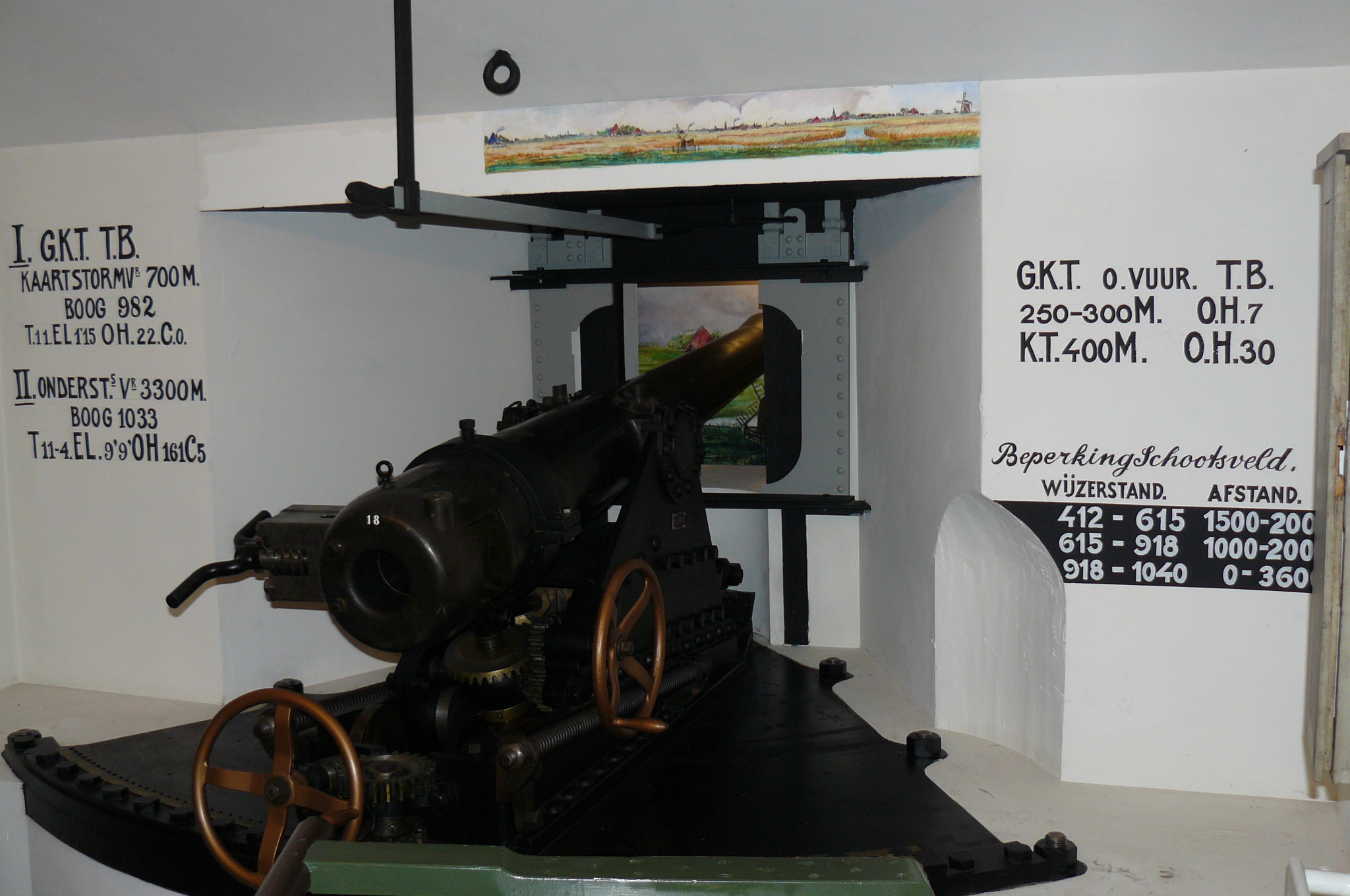 10cm canon used in the fortifications around Amsterdam in the early 20th century. Replication of Fort bij Krommeniedijk as seen in the Nederlands Artillerie Museum, 't Harde, The Netherlands